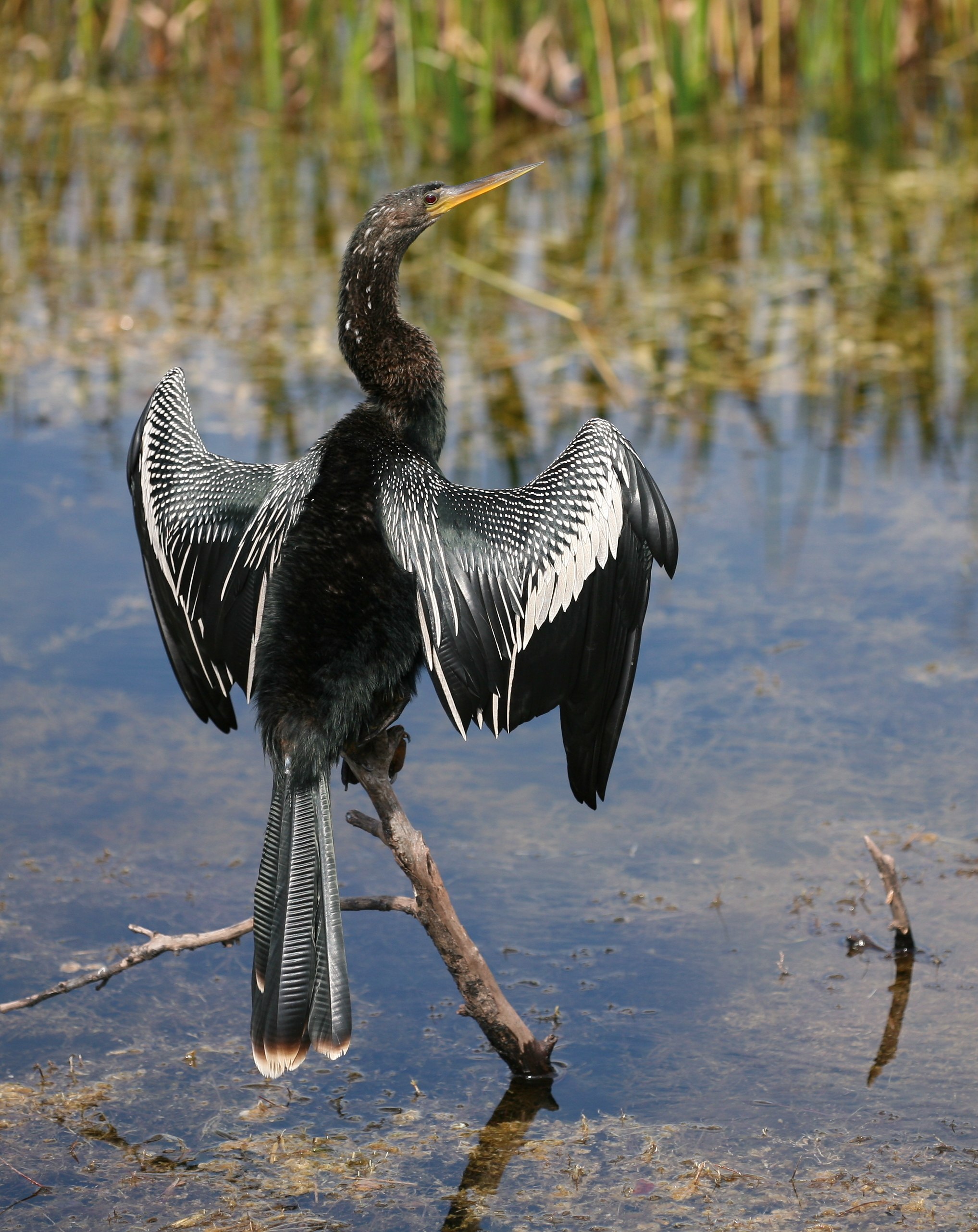 Male Anhinga in Loxahatchee National Wildlife Refuge